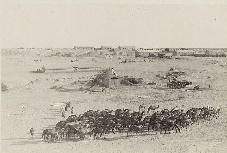 Camels at Maghdabah.